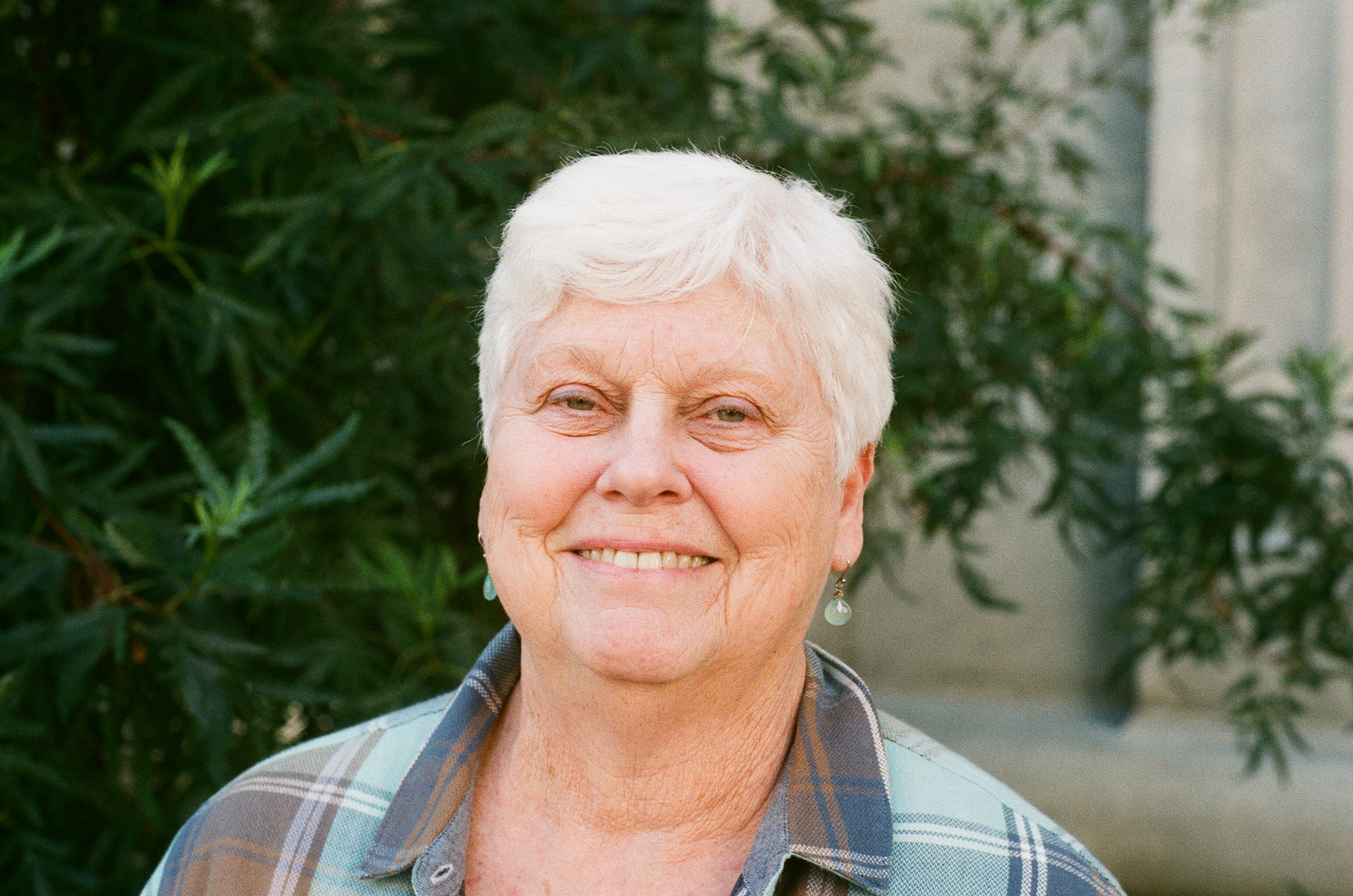 American mathematician Carol Wood at Berkeley, California